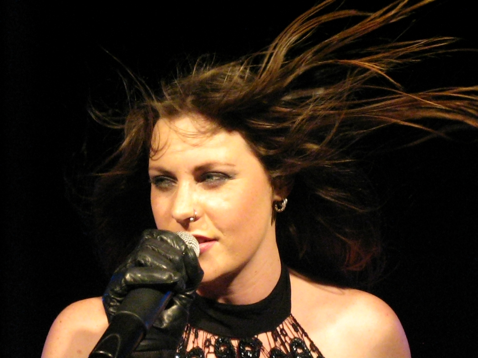 Floor Jansen, singer of the Dutch band After Forever live at the Bierkeller, Bristol. 2007-09-10.